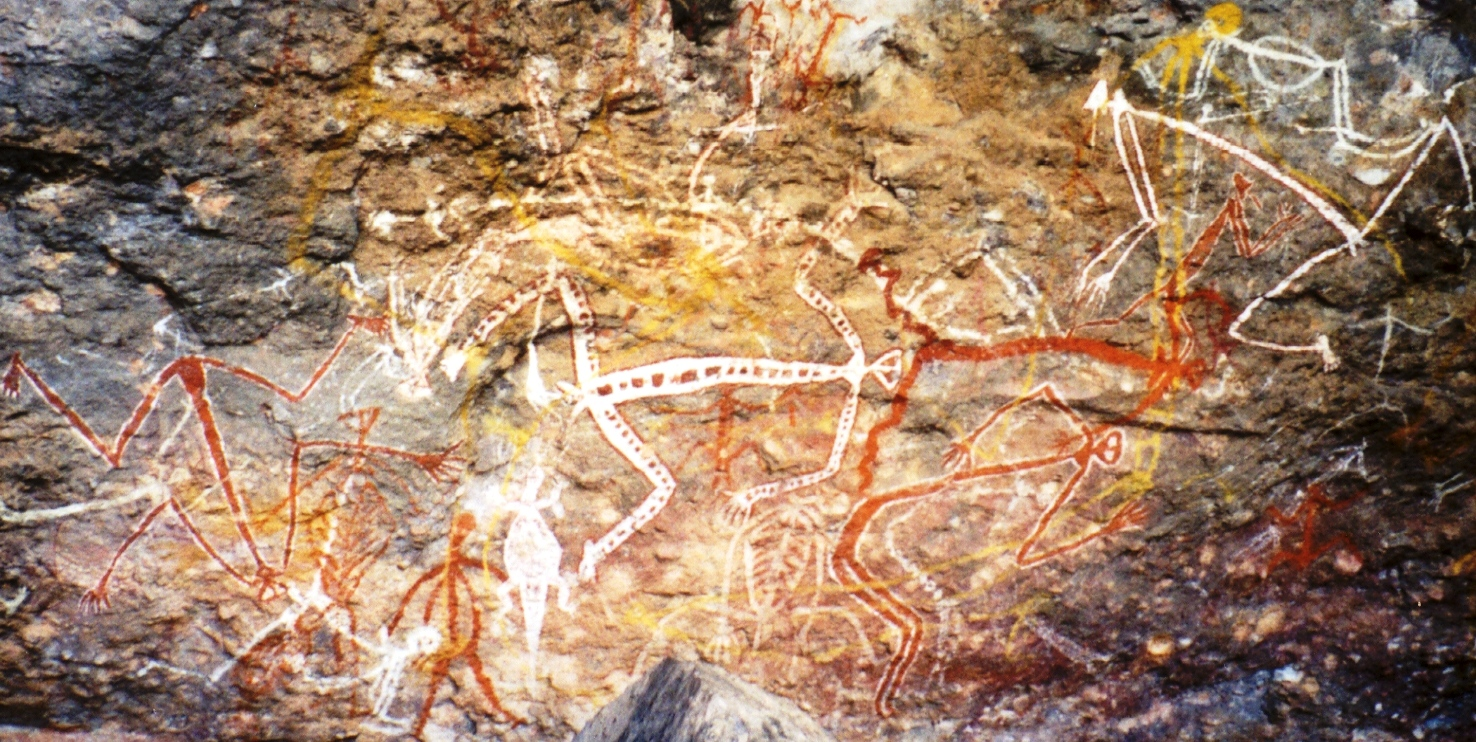 Australian Aboriginal arten rock painting of Mimi spirits in the Anbangbang gallery at Nourlangieen in Kakadu National Parken.